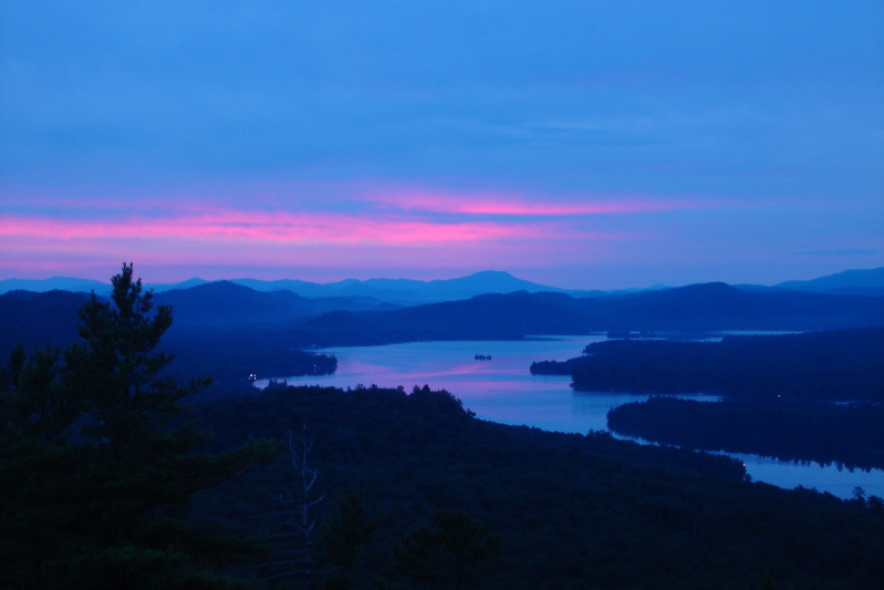 Sunrise over 4th Lake from Bald Mountain, August 2007